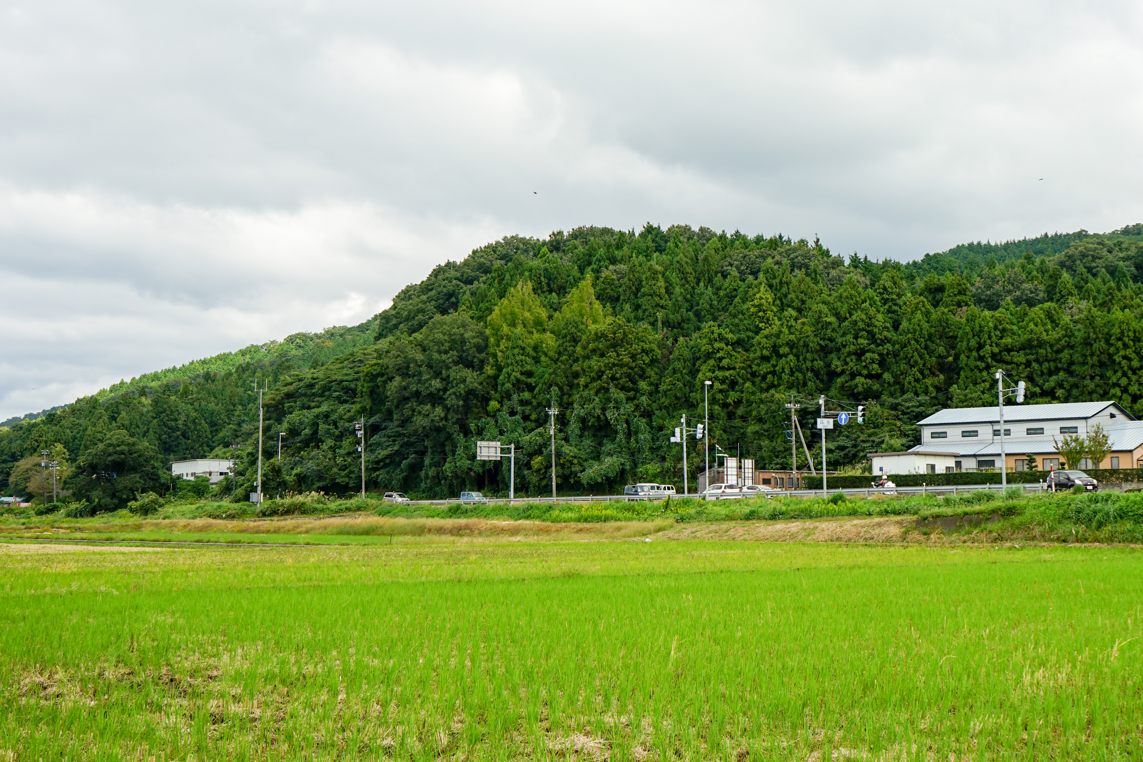 Kannnabiyama Kofun (VI c.), Awara-shi, Fukui Pref., Japan